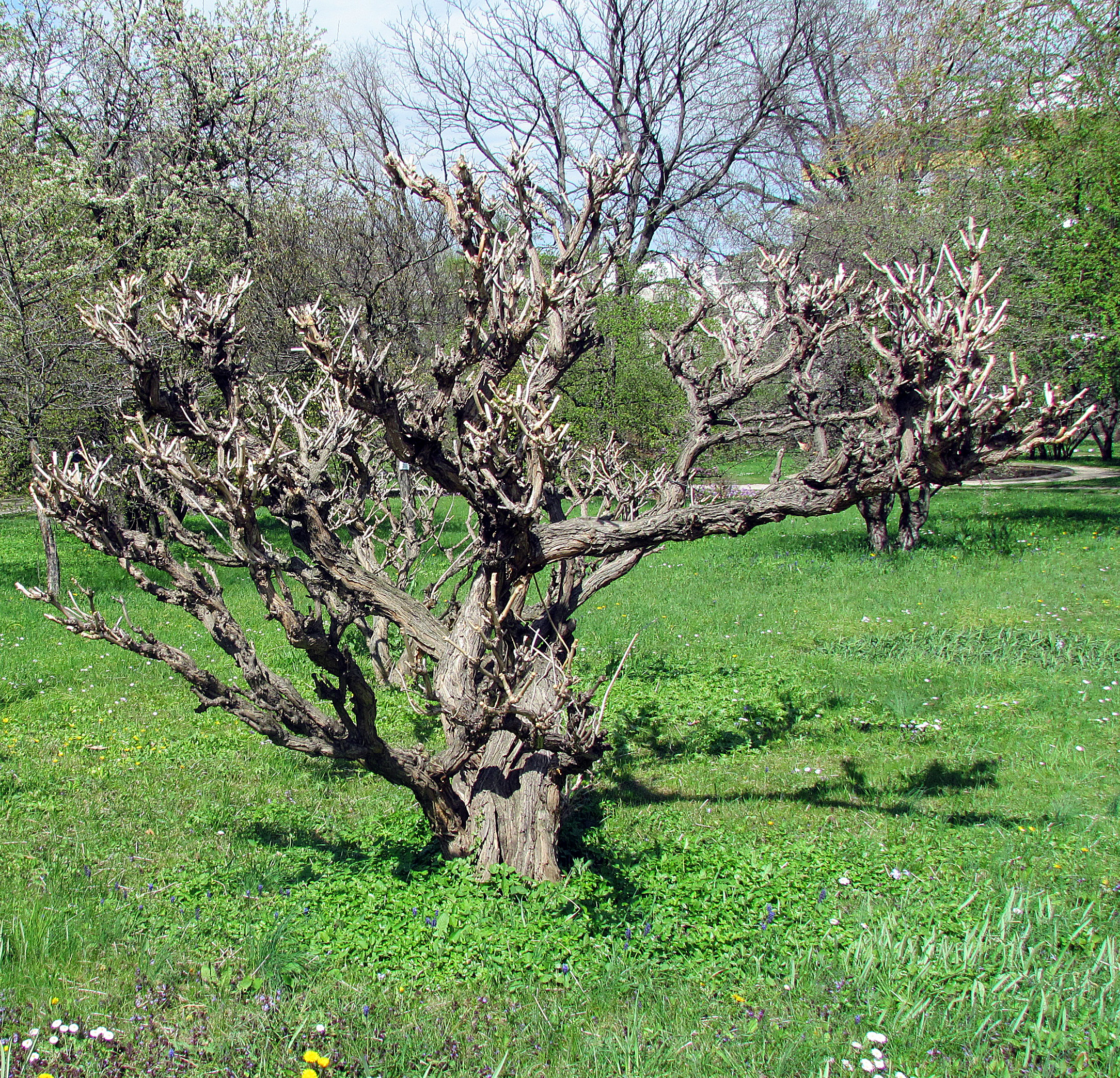 Campsis radicans as a tree in Botanical garden Vienna.